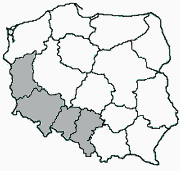 Polish III liga, Group 3: Upper Silesia, Opole, Silesia and Lubuskie.